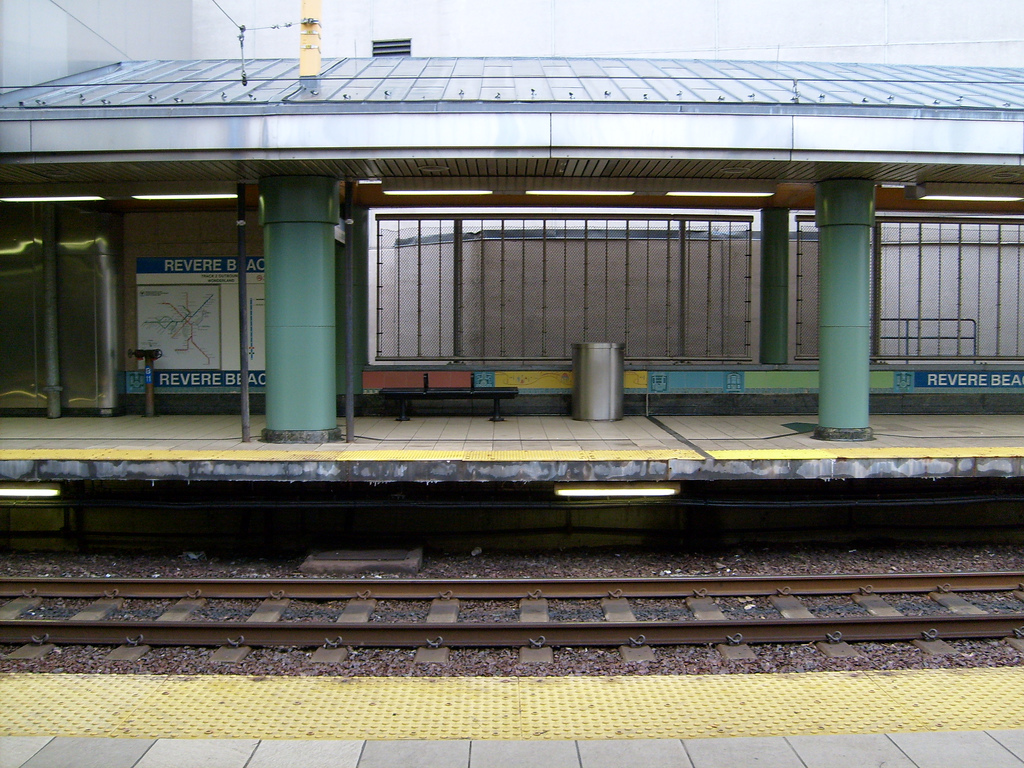 Revere Beach MBTA station.